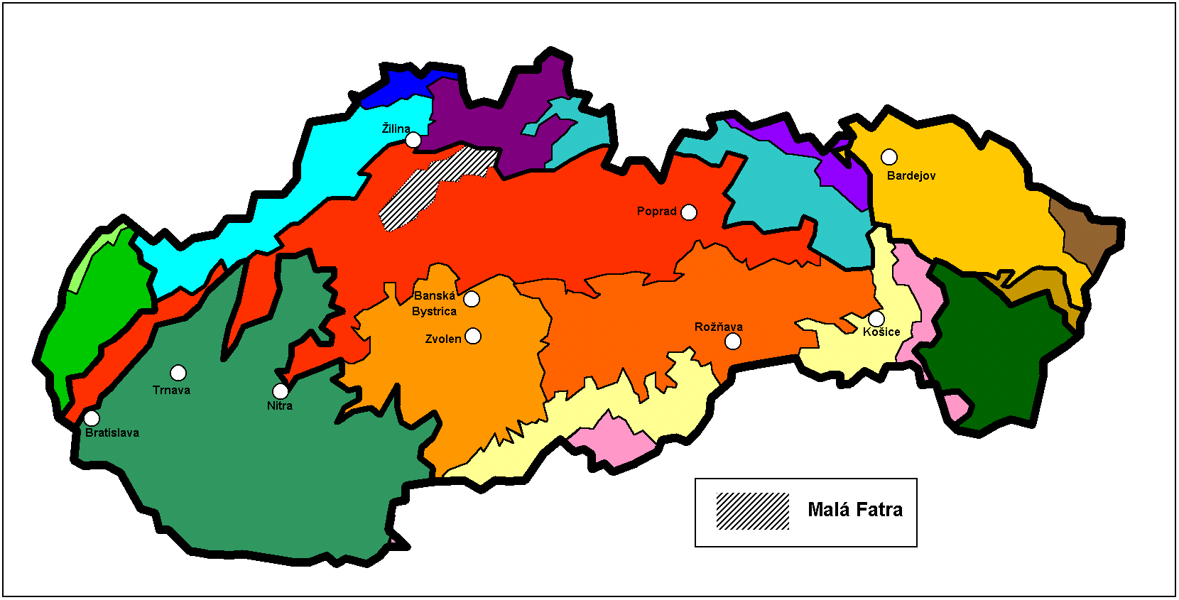 Geomorphology map of the Malá Fatra mountain range (Lesser Fata mountains) — located in the Žilina Region, northern Slovakia.